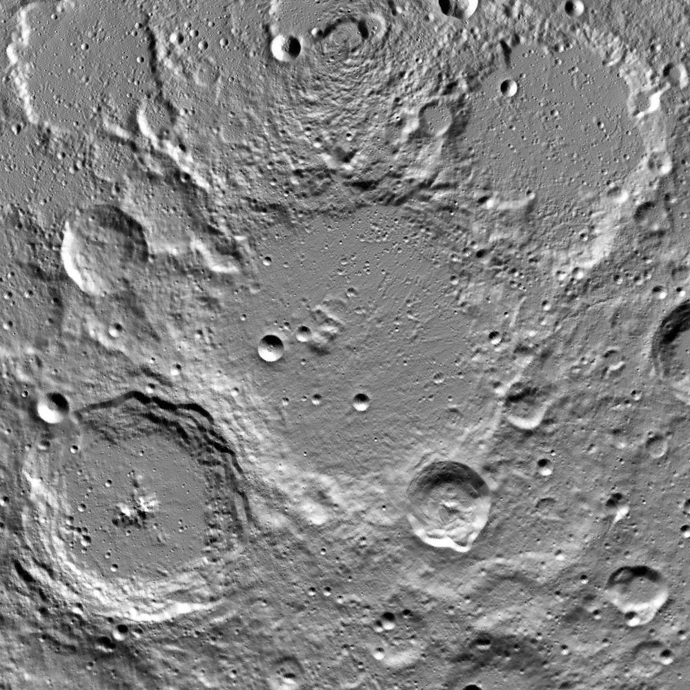 Crater Rozhdestvenskiy (diam. 180 km) on the Moon, near the North pole. Several craters around also have proper names (Plaskett at lower left, Hermite at upper right and some smaller). The image is centered at 85°N, 202°E. The image is build from data by Lunar Orbiter Laser Altimeter (LOLA) aboard the Lunar Reconnaissance Orbiter. Width of the image is 340 km; North pole is near upper margin.